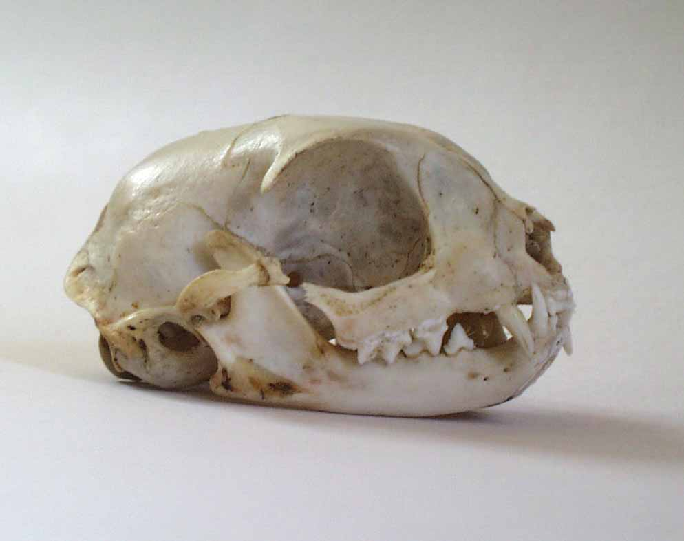 Cat skull.